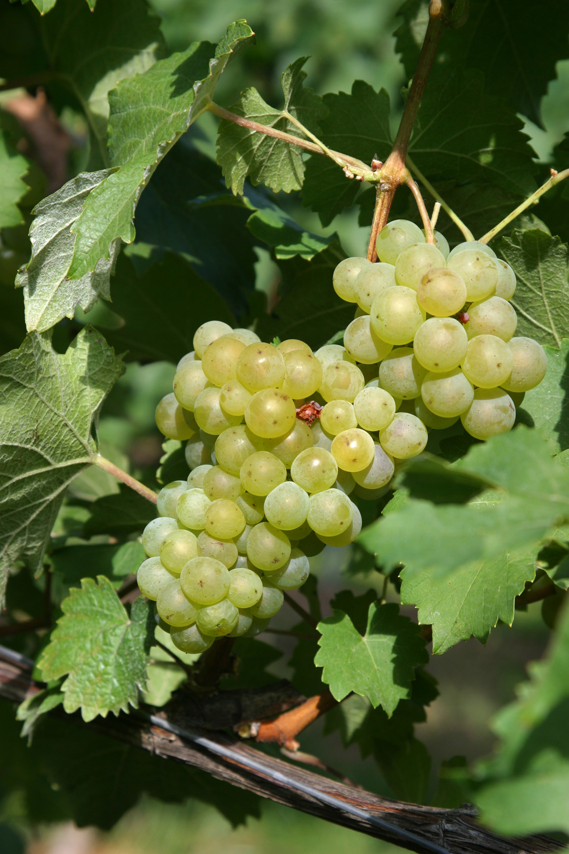 Leafs and grapes of the grape variety Bacchus.